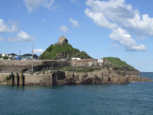 Chapel of St. Nicholas, Lantern Hill St.Nicholas's chapel in Ilfracombe is perched dramatically atop steep little Lantern Hill, a major feature of the entrance to Ilfracombe Harbour. This little building is said to be the oldest extant in Ilfracombe, dating originally from the C13th. By 1522 it was acting as a lighthouse, and according to this it still carries a lantern, established in 1650, which currently emits a green flash every 2½ seconds. The chapel underwent thorough restoration in the 1960s.